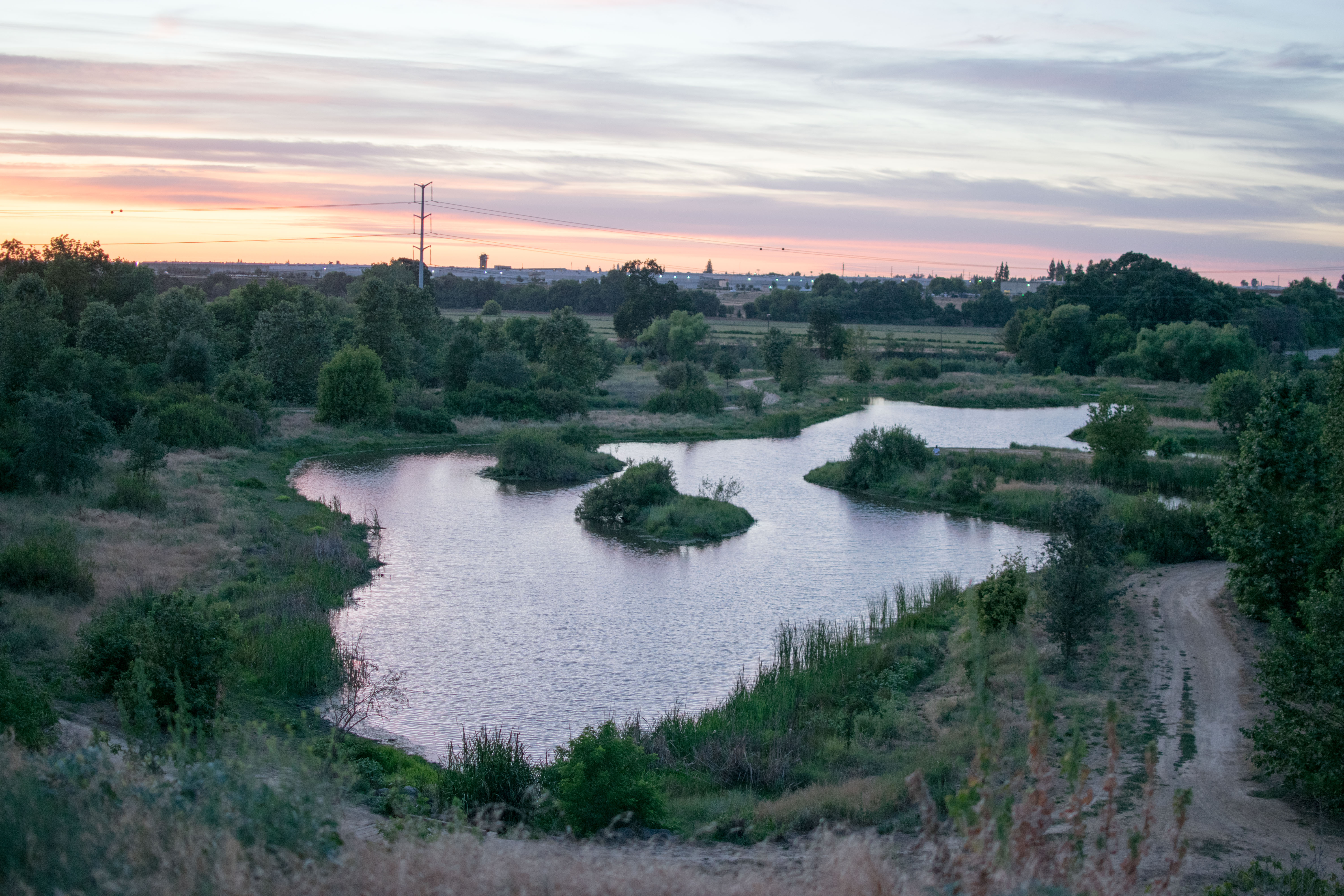 Wide Angle View of the lake on the lower terrace of Ceres River Bluff Regional Park